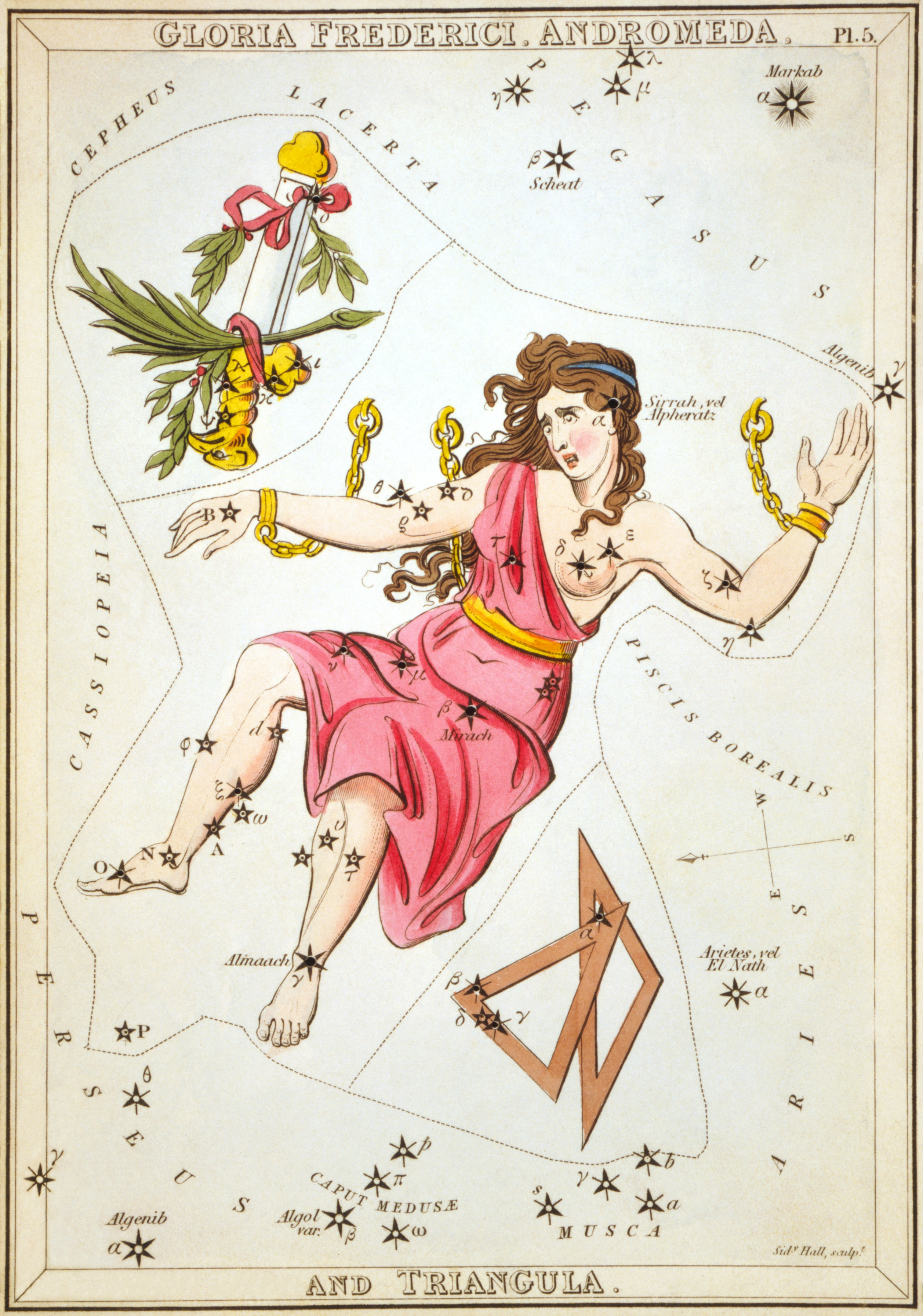 Gloria Frederici, Andromeda, and Triangula, plate 5 in Urania's Mirror, a set of celestial cards accompanied by A familiar treatise on astronomy ... by Jehoshaphat Aspin. London. Astronomical chart showing the constellations of Andromeda, Triangula - a variant of Triangulum using stars too small to feature in this star chart to make a second triangle - and the obsolete constellation Gloria Frederici. 1 print on layered paper board : etching, hand-colored.